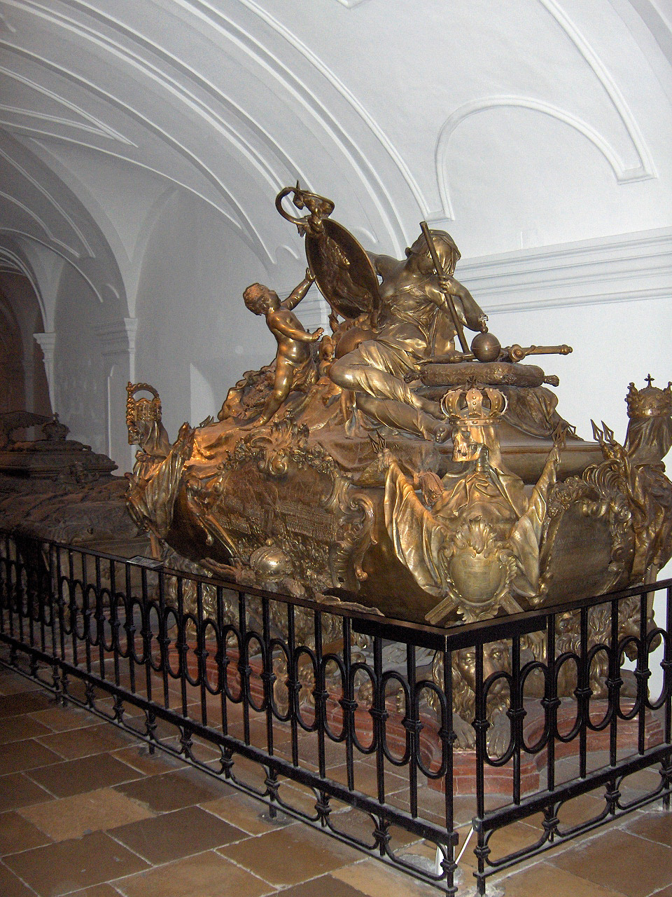 Tomb of Emperor Karl VI (1 October 1685 - 20 October 1740); Kaisergruft, Vienna